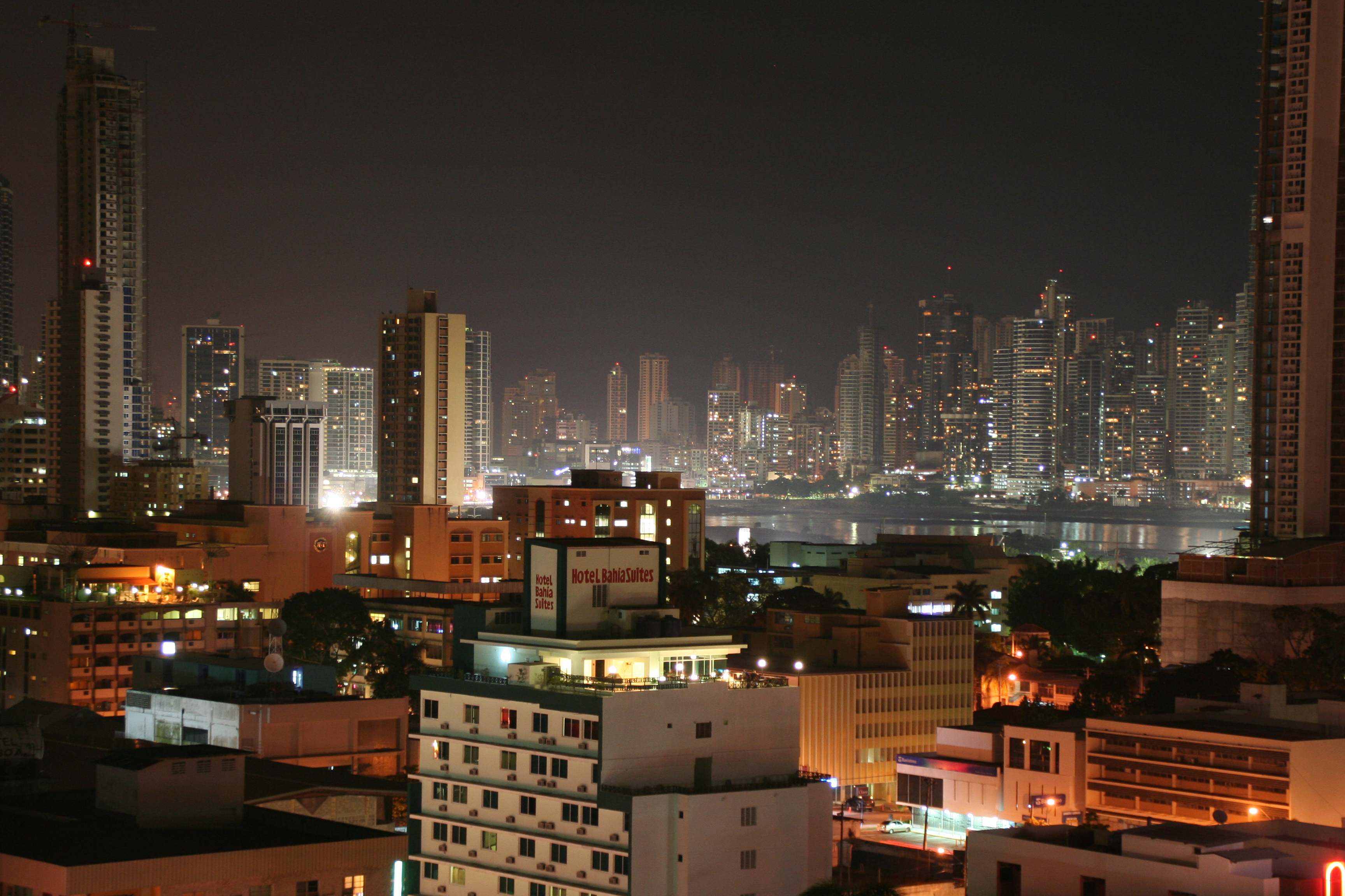 Skyline of the capital of Panama, Panamá or Panama City.